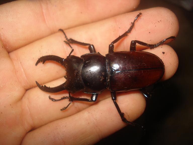 A 50mm long male of Hemisodorcus arrowi.